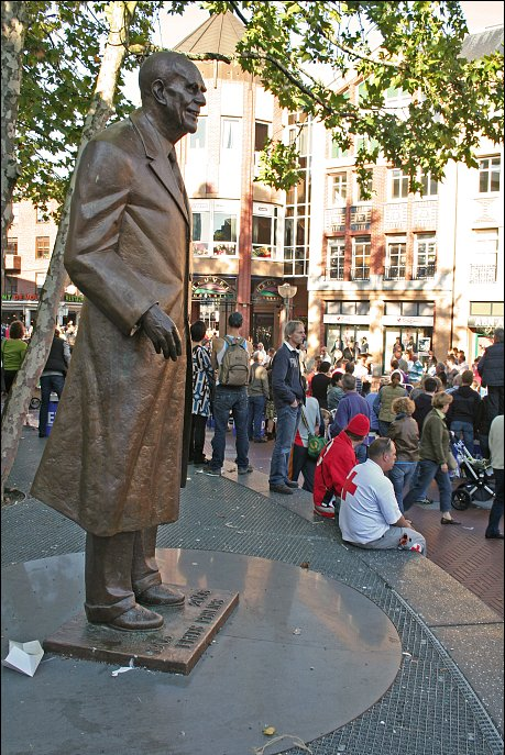 Statue of Frits Philips on the Markt (Market Square) in Eindhoven (Centre)/The Netherlands